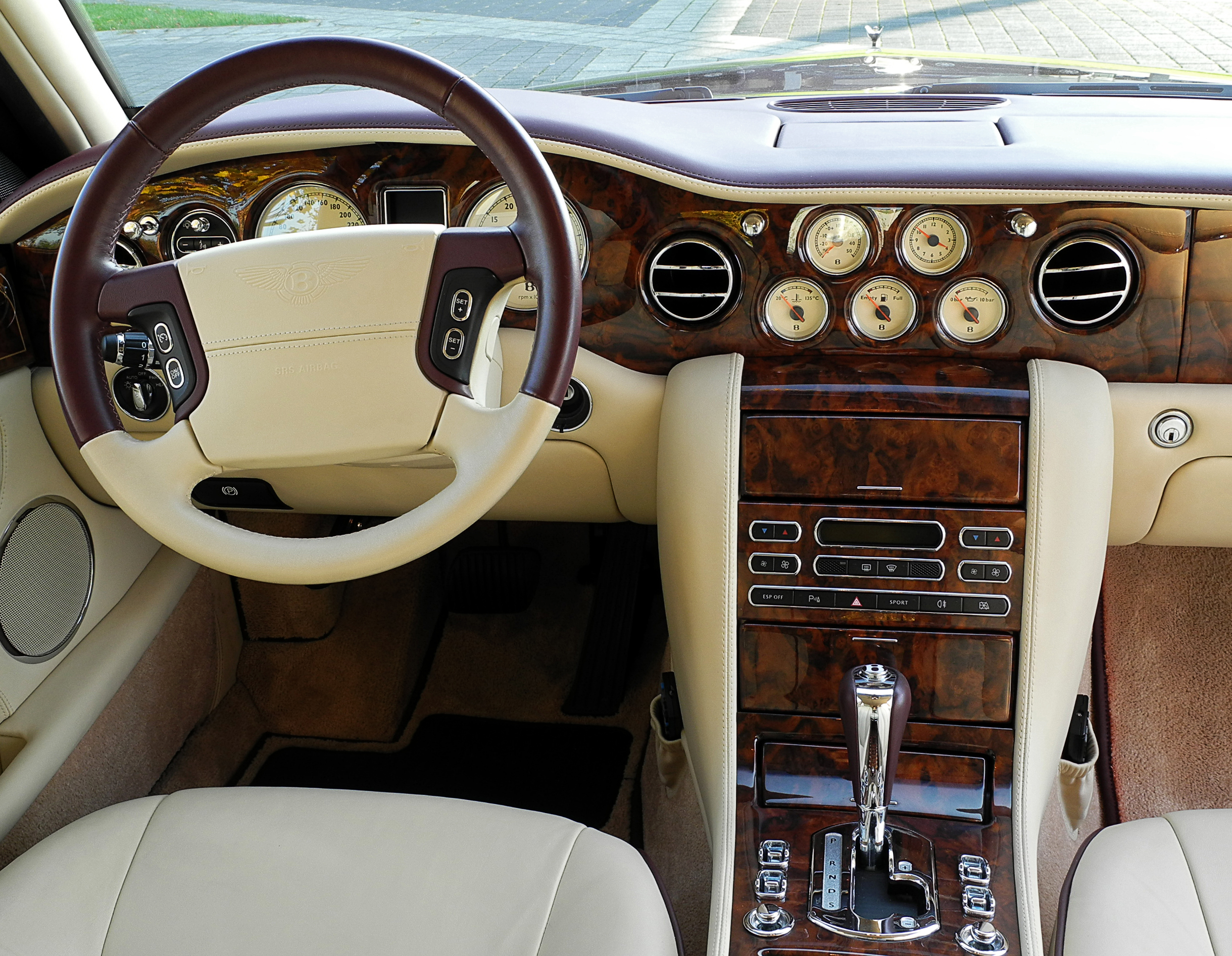 Bentley Arnage R Mulliner (Facelift)